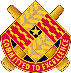 U.S. Army Tank-Automotive and Armaments Command DUI from [1]